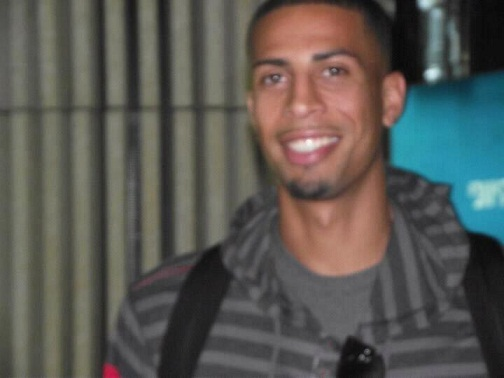 Diamon Simpson in ben-guryon air port (2012)